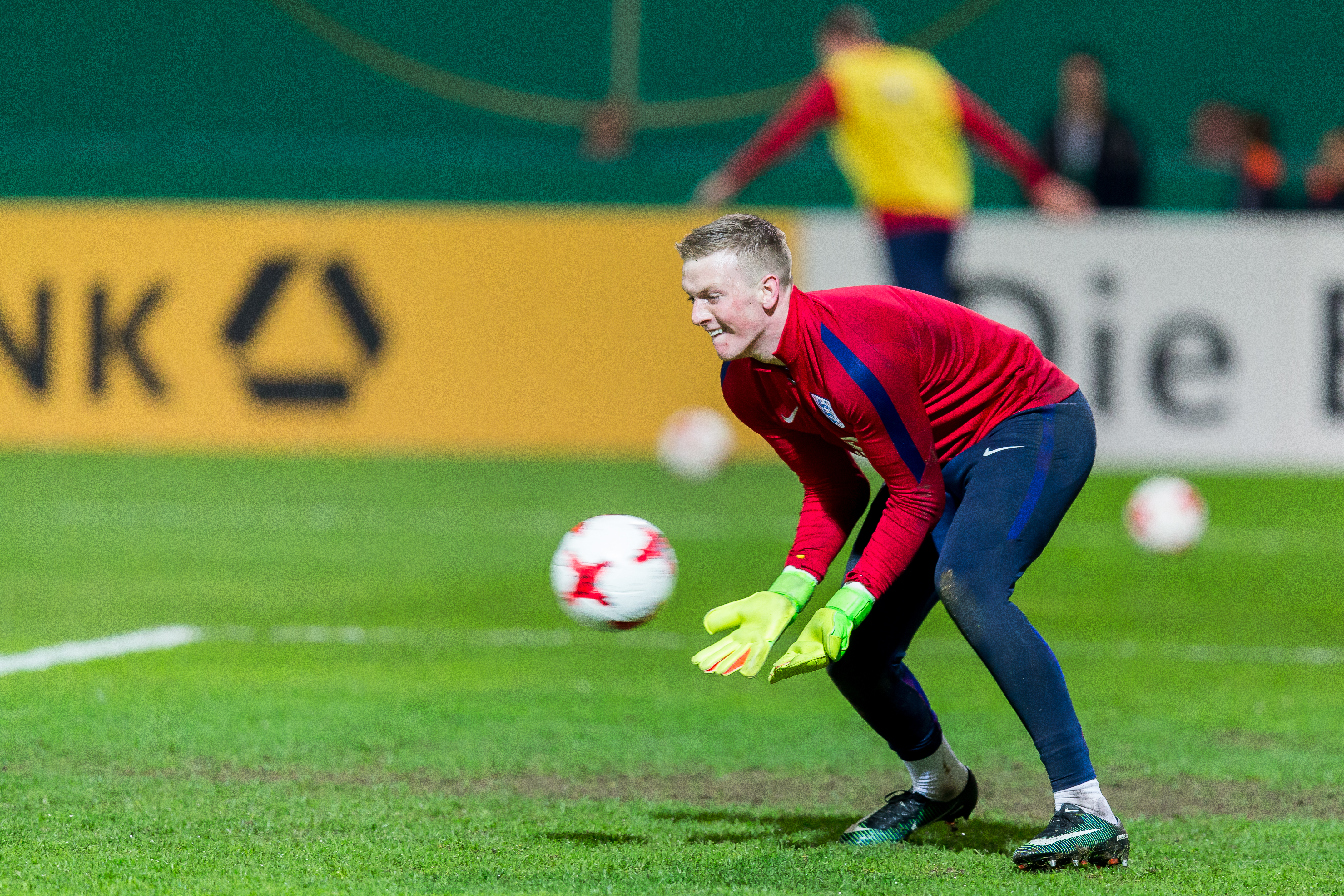 Football U21 Germany vs England (1:0) Team Germany 12 Julian Pollersbeck (1. FC Kaiserslautern) 1 Marvin Schwäbe (Dynamo Dresden) 23 Odisseas Vlachodimos (Panathinaikos Athen) 16 Kevin Akpoguma (Fortuna Düsseldorf) 3 Yannick Gerhardt (VfL Wolfsburg) 5 Matthias Ginter (Borussia Dortmund) 22 Benjamin Henrichs (Bayer 04 Leverkusen) 15 Marc-Oliver Kempf (SC Freiburg) 4 Niklas Stark (Hertha BSC) 13 Jeremy Toljan (1899 Hoffenheim) 2 Mitchell Weiser (Hertha BSC) 18 Nadiem Amiri (1899 Hoffenheim) 10 Maximilian Arnold (VfL Wolfsburg) 25 Hany Mukhtar (Brøndby IF) 7 Max Meyer (FC Schalke 04) 19 Janik Haberer (SC Freiburg) 21 Gideon Jung (Hamburger SV) 20 Levin Öztunali (1. FSV Mainz 05) 17 Maximilian Philipp (SC Freiburg) 9 Davie Selke (RB Leipzig) 27 Thilo Kehrer (FC Schalke 04) Team England 1 Jordan Pickford (Sunderland) 2 Mason Holgate (Everton) 13 Angus Gunn (Manchester City) 21 Christian Walton (Brighton) 16 Kortney Hause (Wolverhampton) 5 Jack Stephens (Southampton) 15 Rob Holding (Arsenal) 12 Joe Gomez (Liverpool) 3 Ben Chilwell (Leicester City) 6 Alfie Mawson (Swansea City) 22 Sam McQueen (Southampton) 4 Nathaniel Chalobah (Chelsea) 14 Will Hughes (Derby County) 20 Ruben Loftus-Cheek (Chelsea) 10 Lewis Baker (Vitesse Arnheim) 18 John Swift (Reading) 23 Jack Grealish (Aston Villa) 8 Harry Winks (Hotspur) 19 Cauley Woodrow (Fulham) 9 Tammy Abraham (Bristol City) 17 Solly March (Brighton) 11 Jacob Murphy (Norwich) during Fussball U21 Deutschland vs England at Brita-Arena, Wiesbaden, Hessen, Germany on 2017-03-24, Photo: Sven Mandel